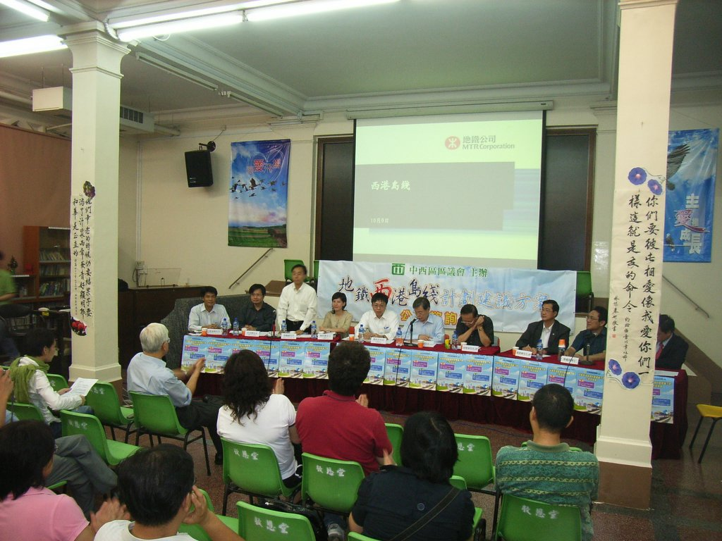 Smithfield 士美非路, Kennedy Town, Hong Kong (By KennedyTom).